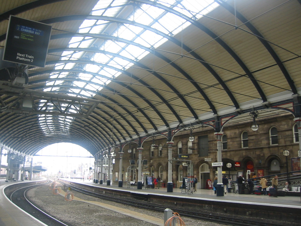 The central railway station of Newcastle-upon-Tyne, England. Source: Jaakko Sakari Reinikainen (ulayiti)